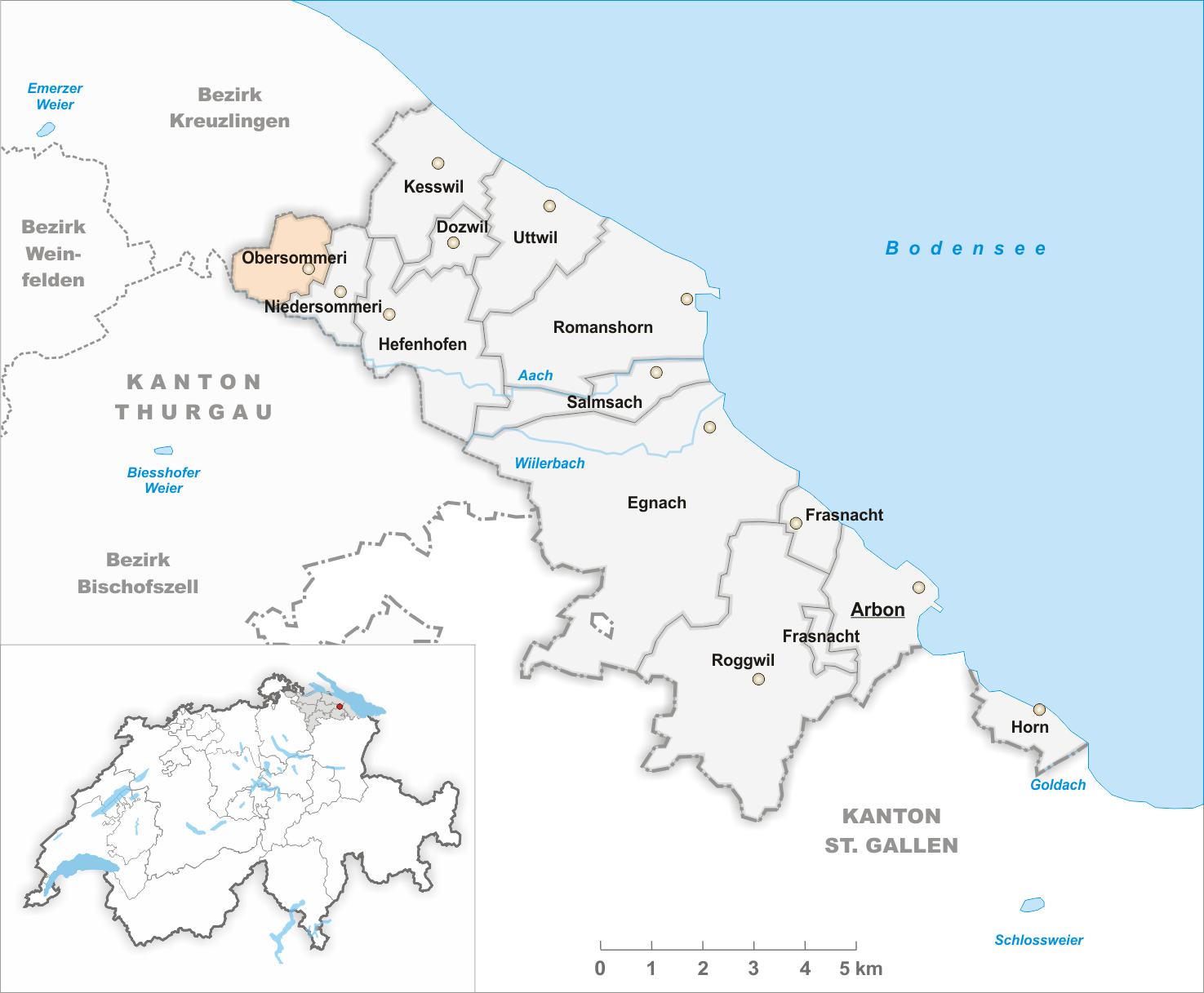 Municipality Hemmerswil